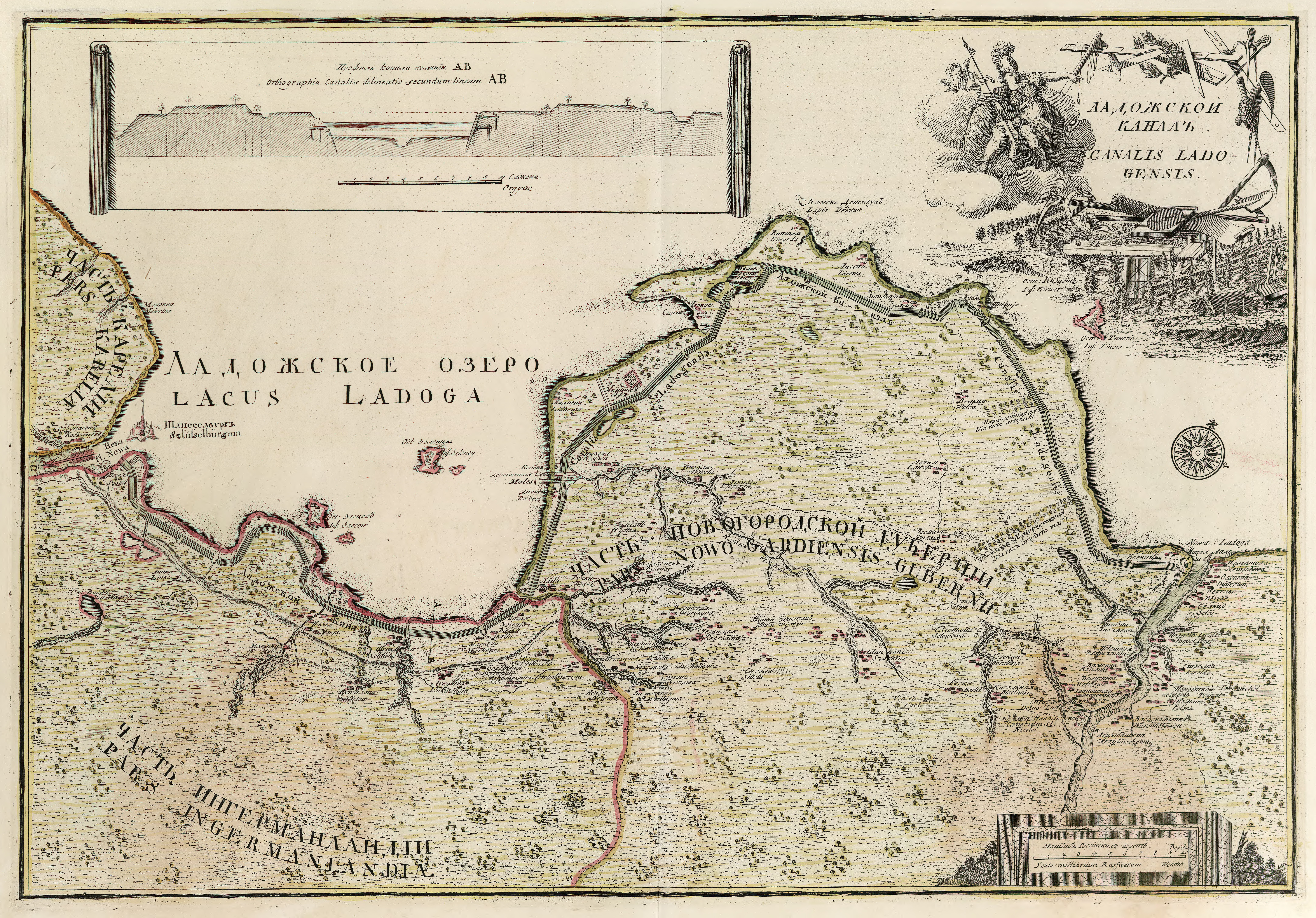 The Map of the Ladoga Canal (1741-42).